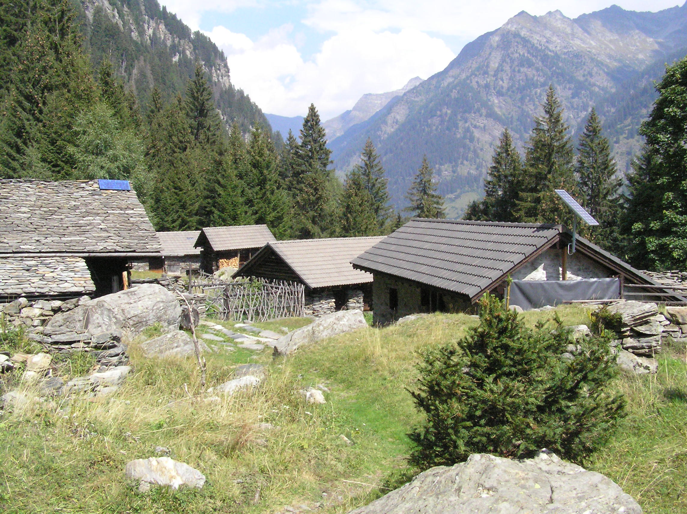 Scandalasc